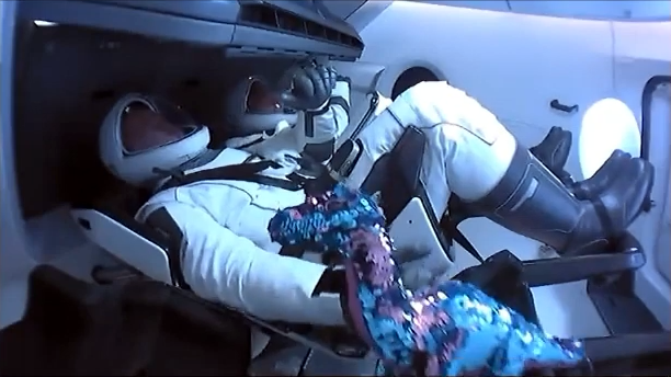 During the live transmission, a dinosaur toy floated in the Dragon 2. Credits: NASA.